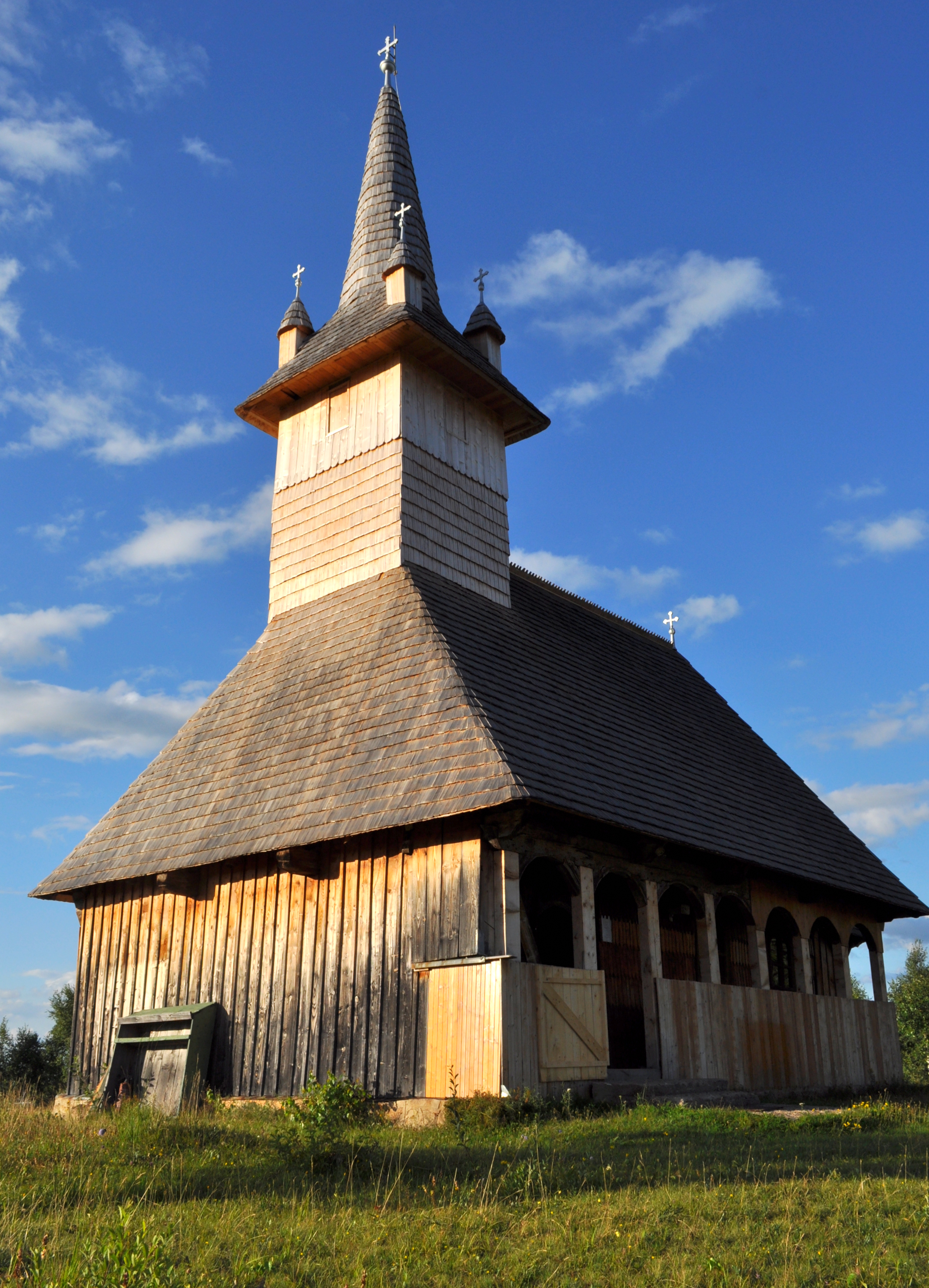 Wooden church in Dealu Negru, Cluj countyRomână: Biserica de lemn din Dealu Negru, județul Cluj